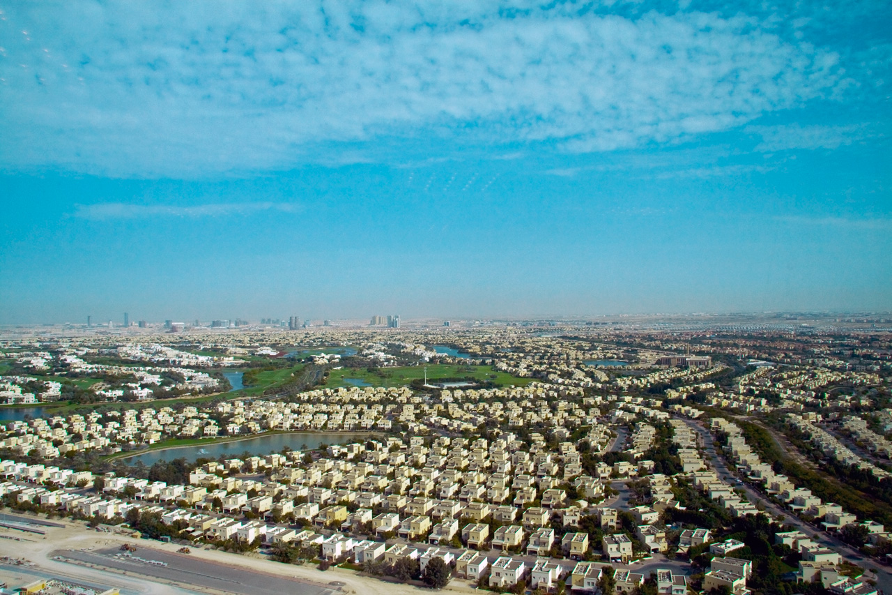 A view of Meadows Community in Dubai, UAE